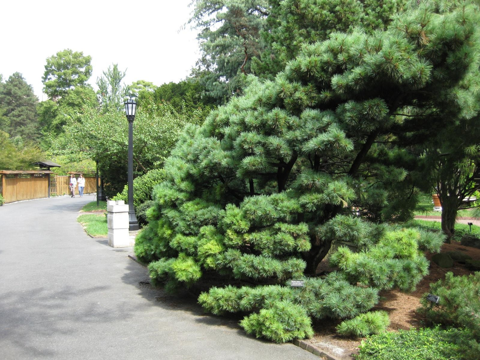 Pinus strobus 'radiata' .Photographed at Brooklyn Botanic Garden (New York) in September